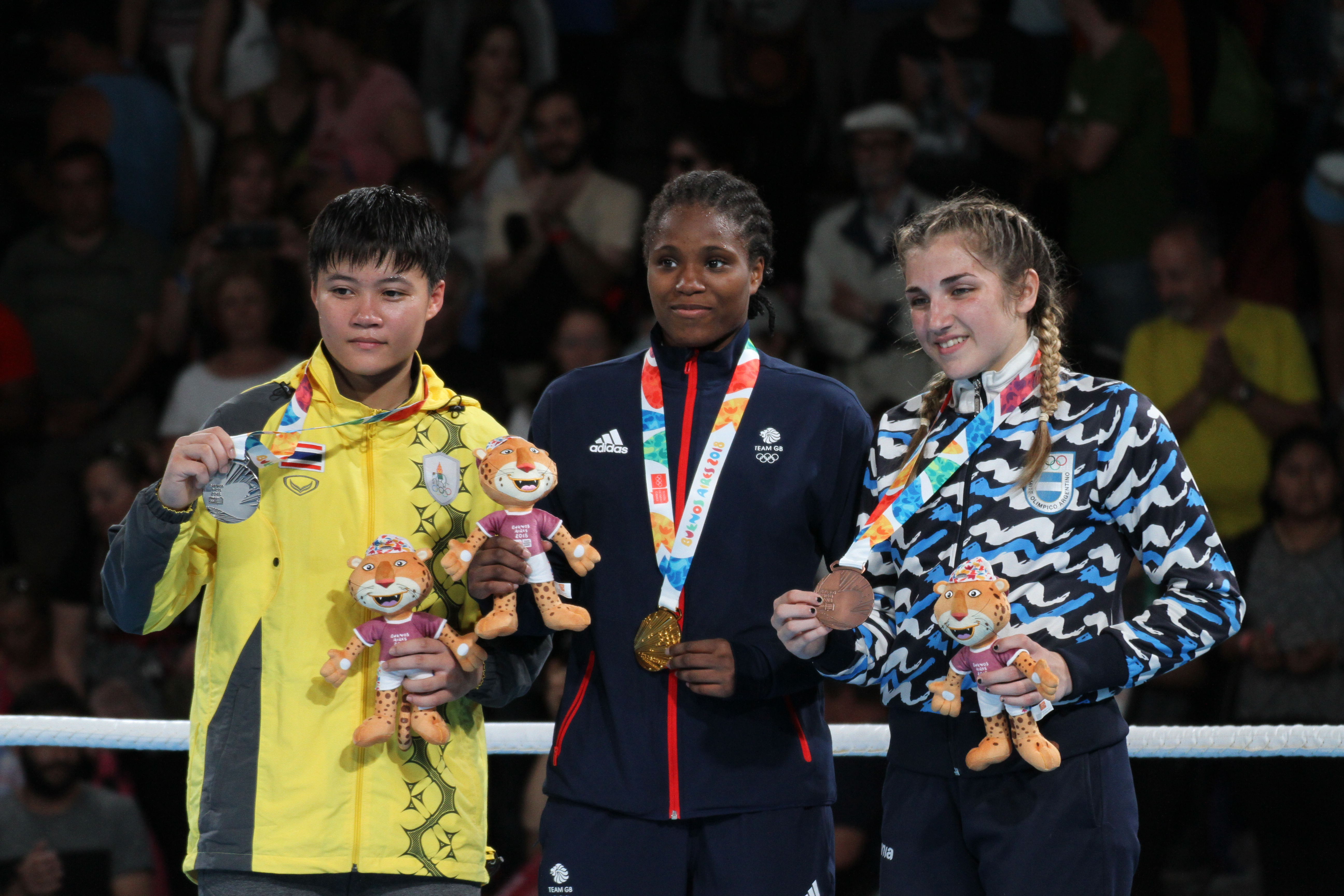 Victory Ceremony of the Girls' lightweight Boxing tournament of the 2018 Summer Youth Olympics.